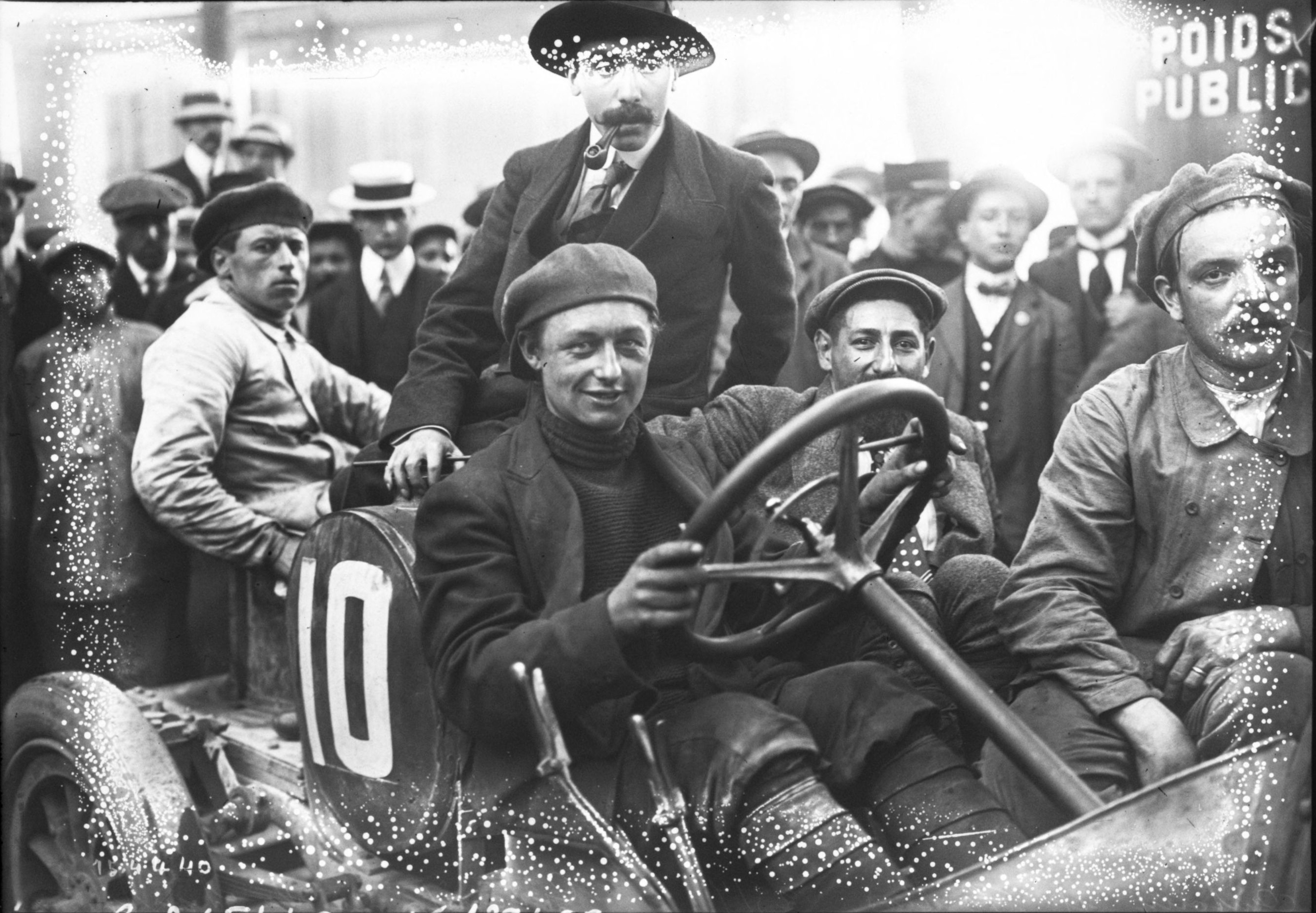 Anthony at the 1911 Grand Prix de France at Le Mans.